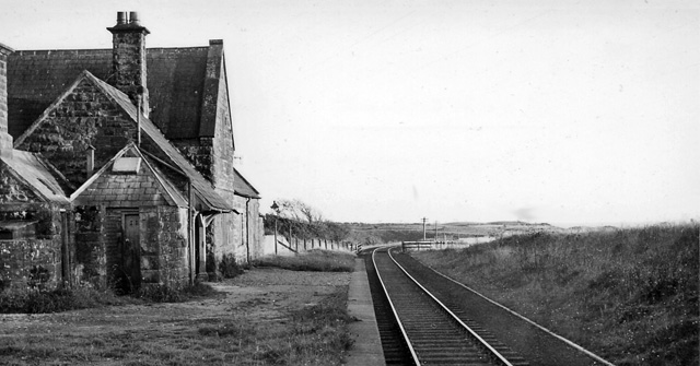 Beckermet Station (remains). View southward, towards Sellafield; former Whitehaven, Cleator & Egremont (LNW & Furness) Joint Cleator Moor - Sellafield line, closed to passengers 16/6/47, to goods 2/3/64; possibly used for Workmen's trains to Sellafield Nuclear Plant later. It may be converted to a dwelling here.